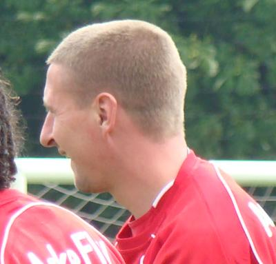 Image of the FC Twente-player Jeroen Heubach